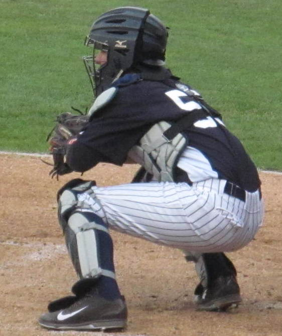 Brooklyn Cyclones vs. Staten Island Yankees - Richmond County Bank Ballpark at St. George - June 28, 2014